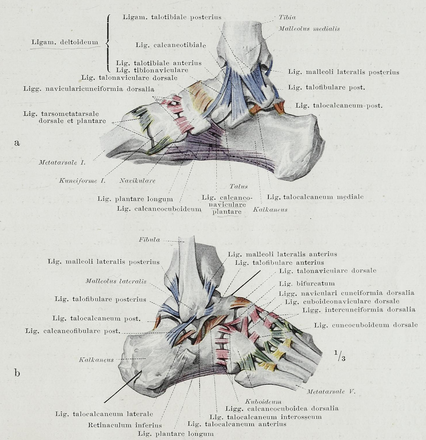 An anatomical illustration from the 1921 German edition of Anatomie des Menschen: ein Lehrbuch für Studierende und Ärzte with latin terminology.